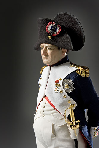 Historical Mixed Media Portrait Sculpture of Napoleon Bonaparte produced by artist/historian George S. Stuart and photographed by Peter d'Aprix. This image, from the George S. Stuart Gallery of Historical Figures® archive ( is provided for all uses with appropriate attribution. Any derivatives must be shared in the same manner. Contributor mharrsch is webmaster for the gallery site.